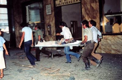 Bombing at Bologna: August 2nd 1980